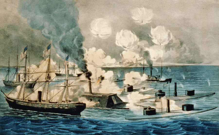 Great naval victory in Mobile Bay, Aug. 5th 1864